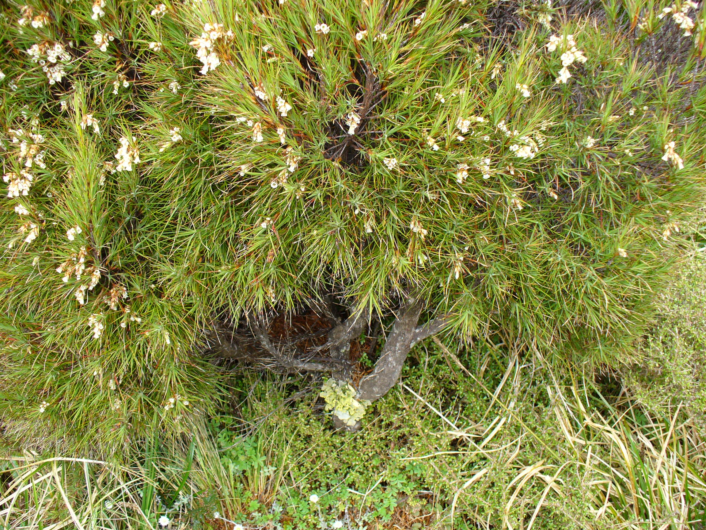 Dracophyllum forms a medium size bush. Sheltered parts of Campbell Island, from sea level to a few hundred metres are covered with a dense scrub of Dracophyllum.